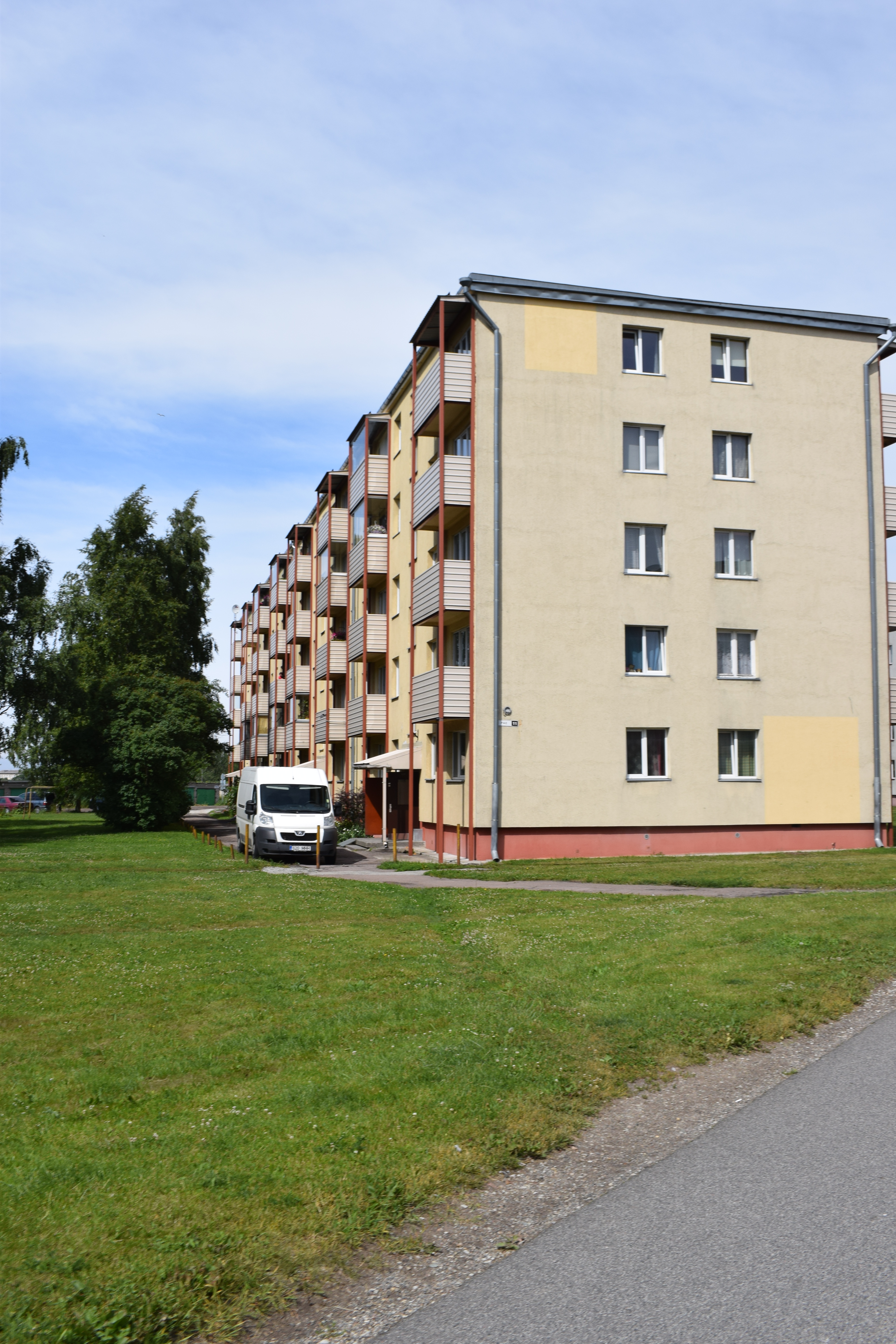 Pae street 11